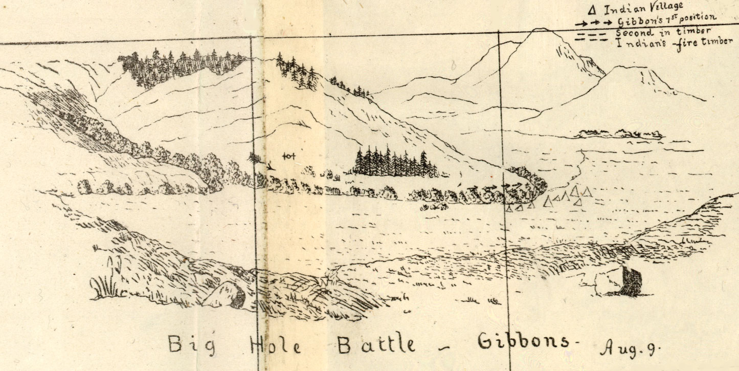 Hand drawn map of the Big Hole Battlefield